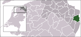 Locator map of Dutch municipalities in Groningen (LocatieBellingwedde.png)